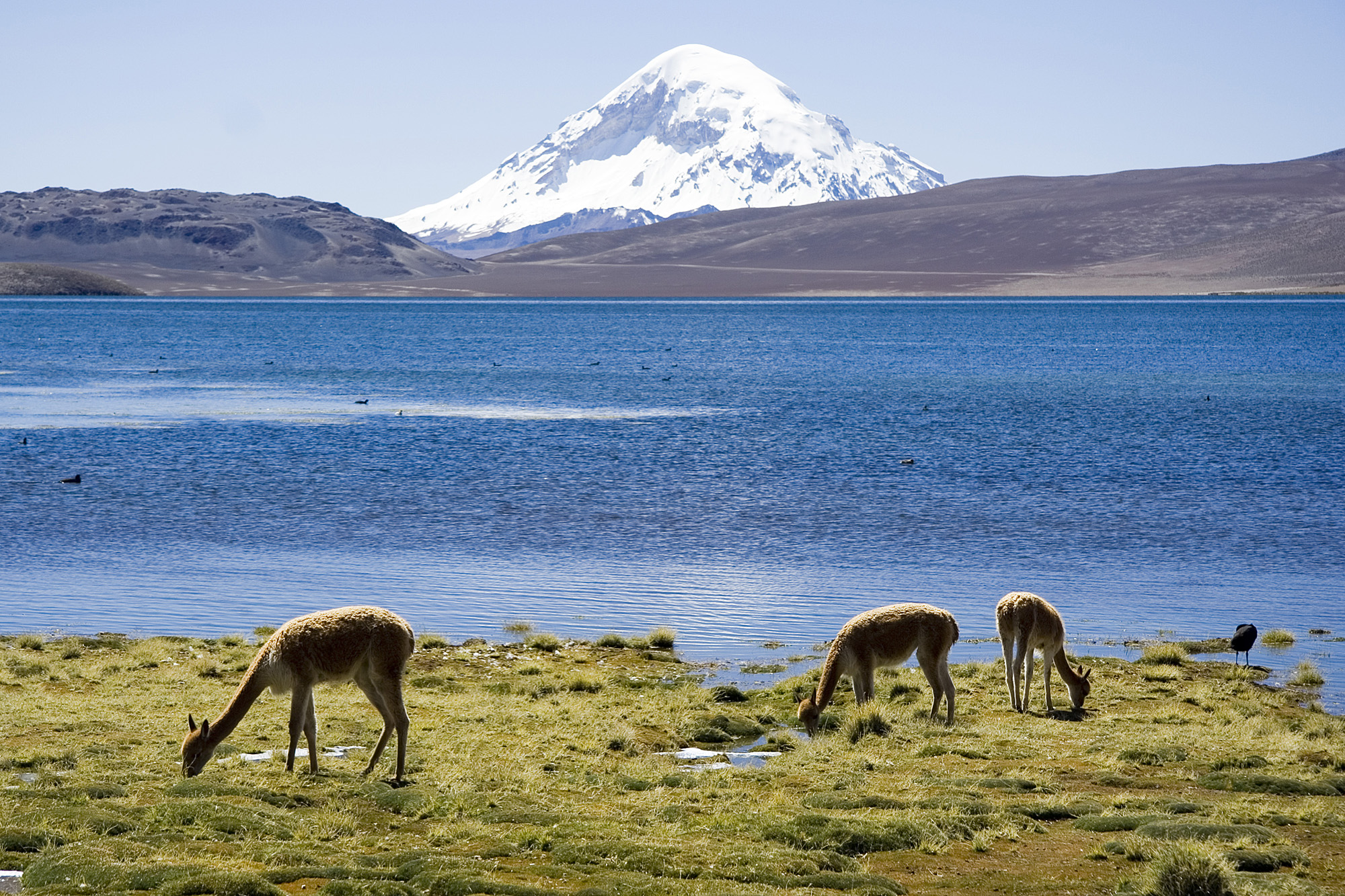 Chungara Lake in Lauca National Park, Chile Norte Grande and Volcan Sajama in the national park sajama Bolivia. The Lauca National Park, with a surface area of 137,883 hectares (303,342 acres) is a Global Biosphere Reserve. The Chungara Lake, one of the most elevated of the world, is located at the foot of the Payachata twin volcanoes.